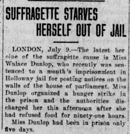 London, July 9 - The latest heroine of the suffragette cause is Miss Walace [sic] Dunlop, who recently was sentenced to a month's imprisonment in Holloway jail for posting notices on the walls of the house of parliament. Miss Dunlop organized a hunger strike in the prison and the authorities discharged her this afternoon after she had refused food for ninety-one hours. Miss Dunlop has been in prison only five days.